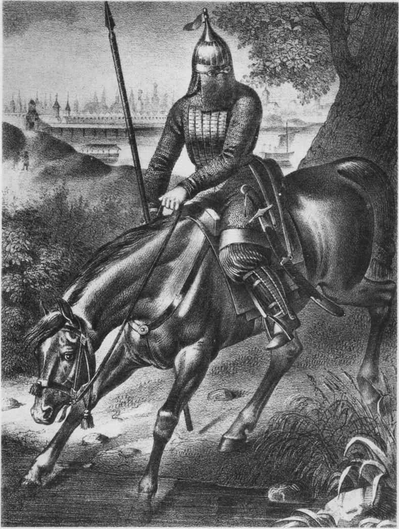 Russian horseman.